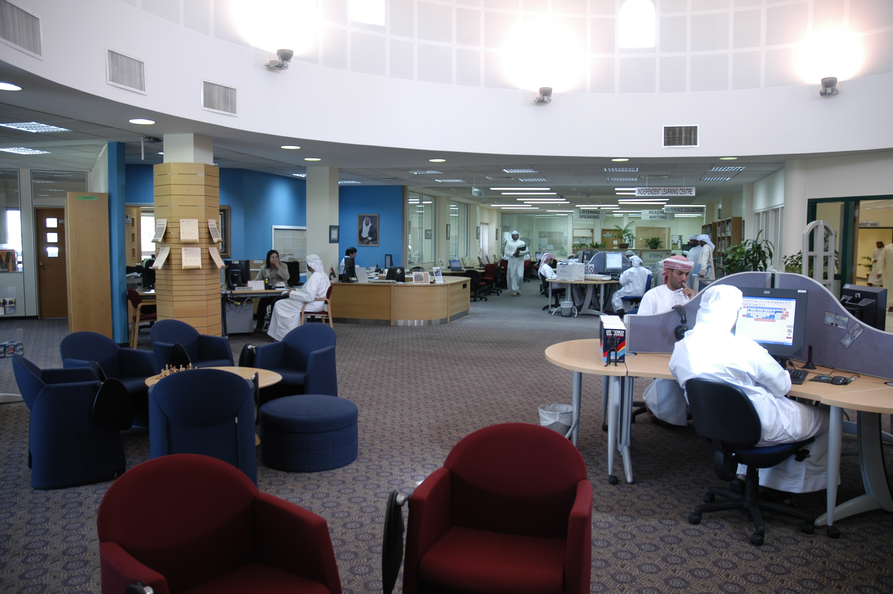 Al Ain Men's College Library, United Arab Emirates.